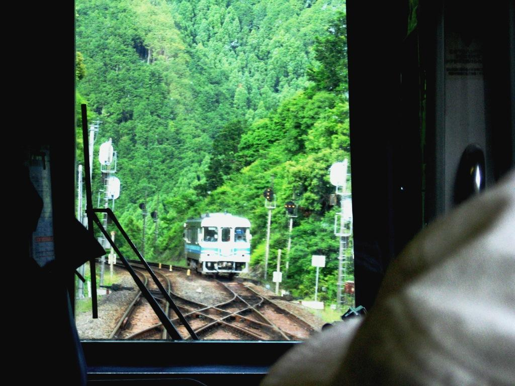 Kawaoku Signal Base, seen from Kaina side, taken on the limited express train Nampu for Okayama